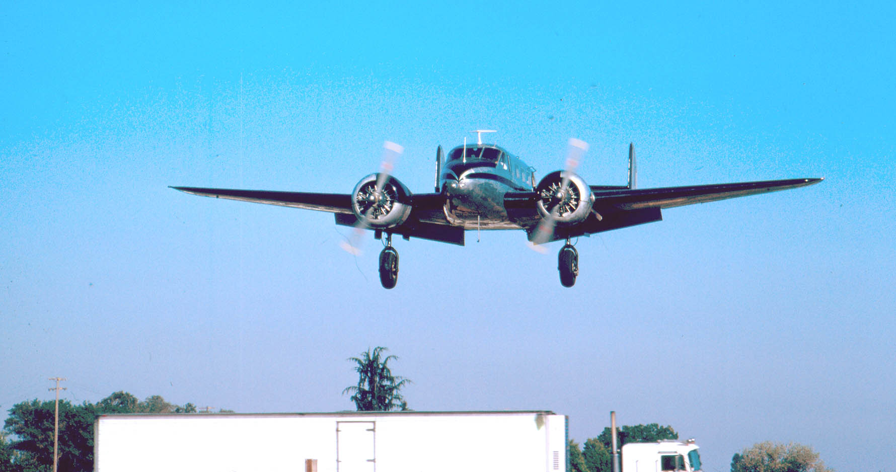 The approach to the runway at the Lodi, California, airport is right over a freeway. I finally got a photo to show this when a big truck came by at the right moment.